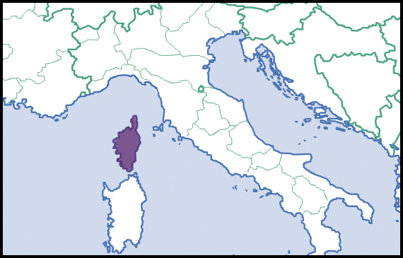 Cyrnotheba corsica (Shuttleworth, 1843). Distributional range in Europe, scientific state of knowledge of 2012. Source description in English. Light colour indicated rare occurrences or regions where the species could eventually be expected to occur. Dark colour indicated relatively reliable occurrences, as well as regions where the species was expected to occur, and where the species was not known to be extremely rare. Dark colour indications were not necessarily based on published records. Species summary in AnimalBase